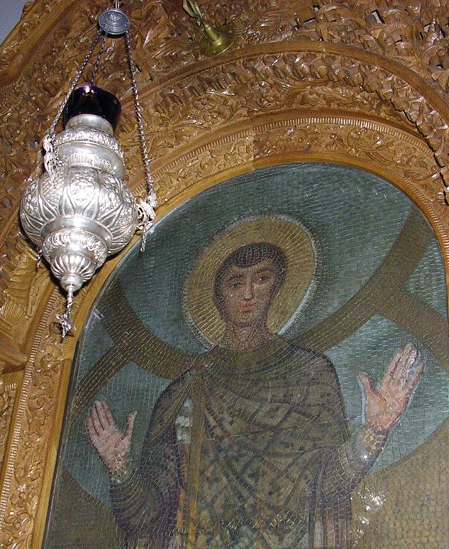 Oil lamp in Hagios Demetrios (Thessaloniki)